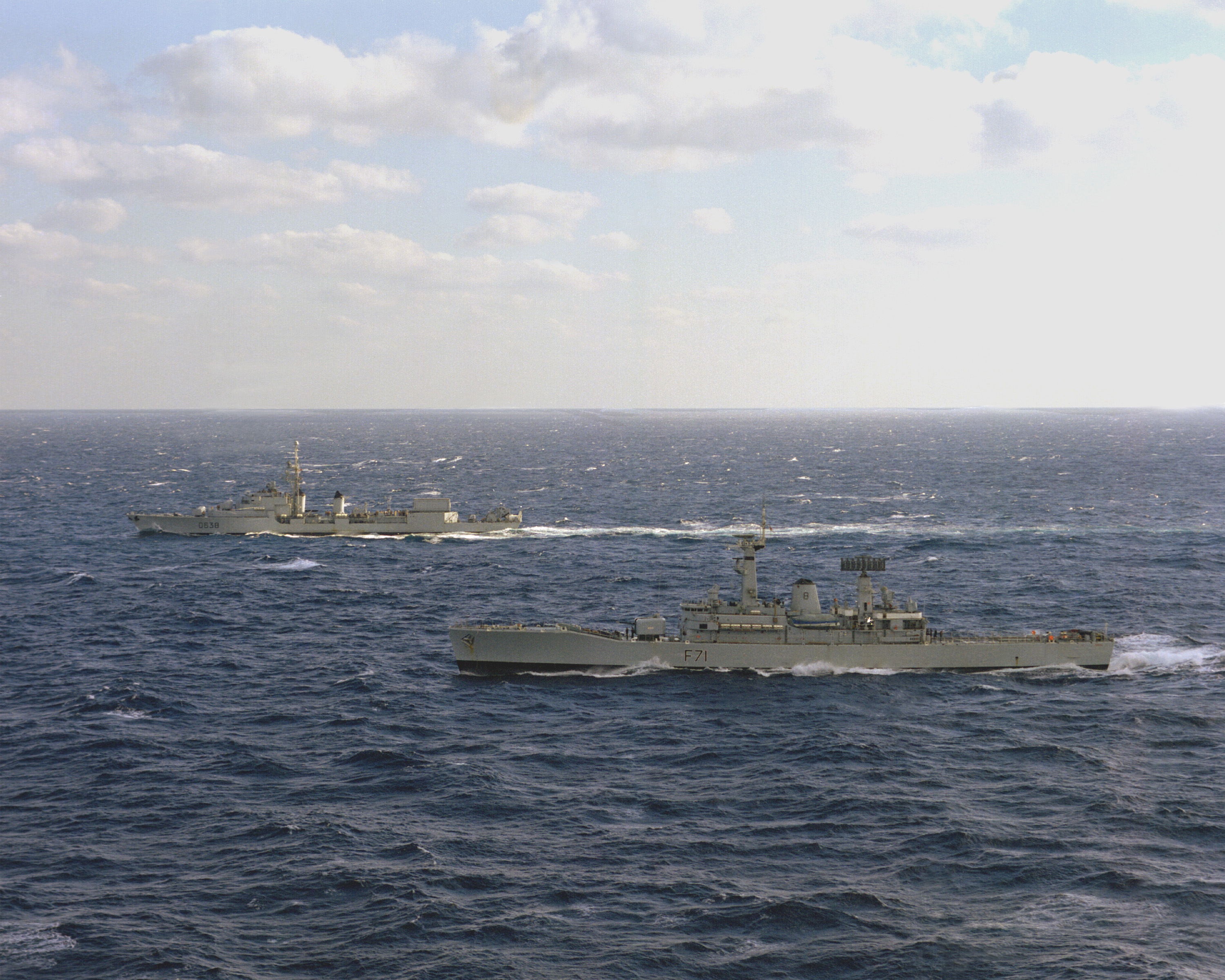 The British frigate HMS Scylla (F71) and the French destroyer La Galissonniere (D638) underway during NATO exercises on 18 November 1978.